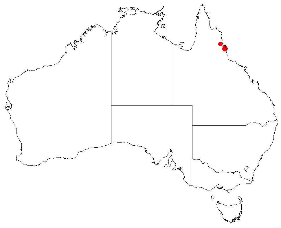 Acrotriche baileyana Occurrence data from Australasian Virtual Herbarium downloaded 23 November 2018 using